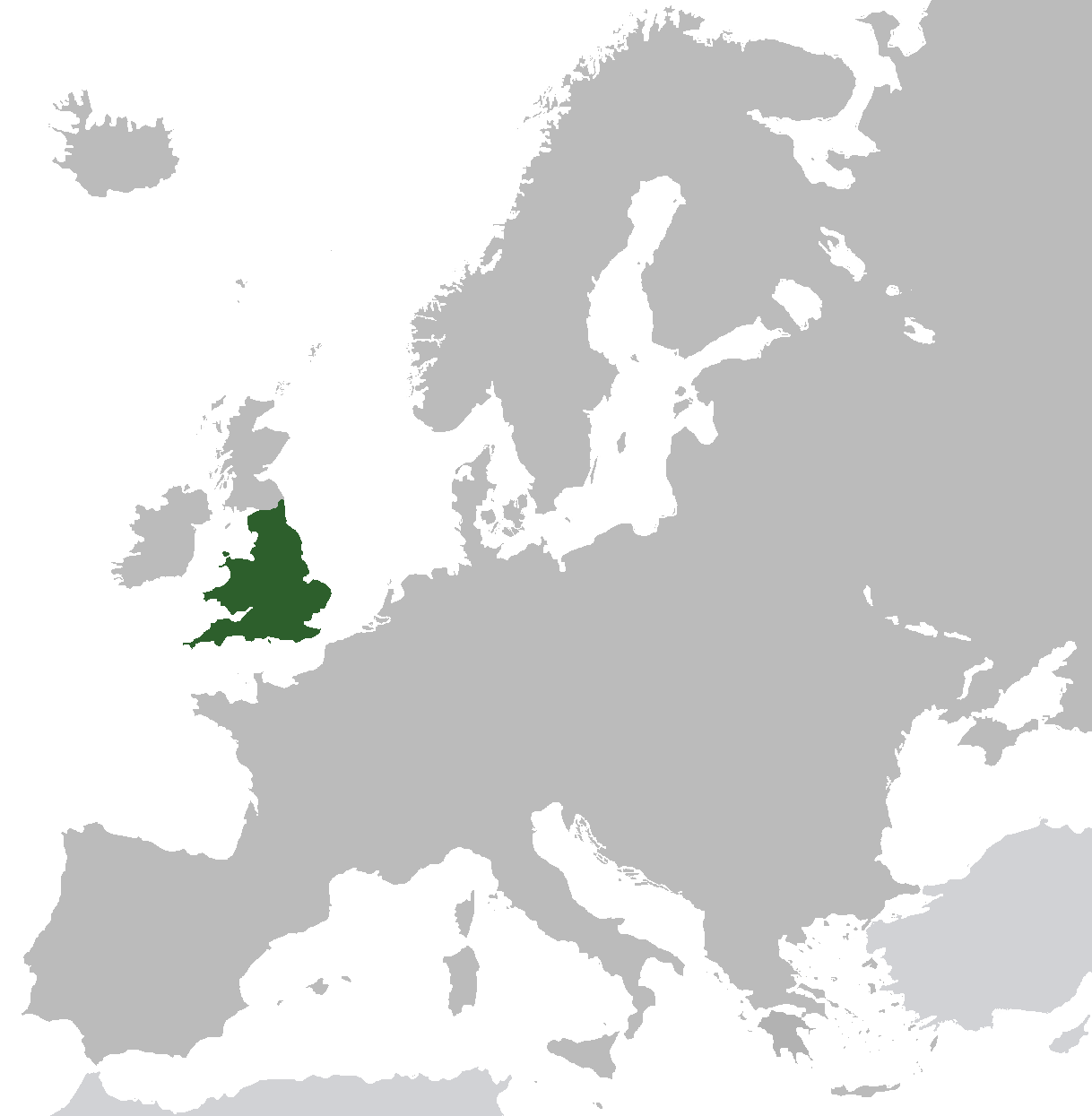 Map of the Kingdom of England from ca. 1282 to 1603. Does not include islands attached to the crown, but not incorporated into England, or varying territories in France.